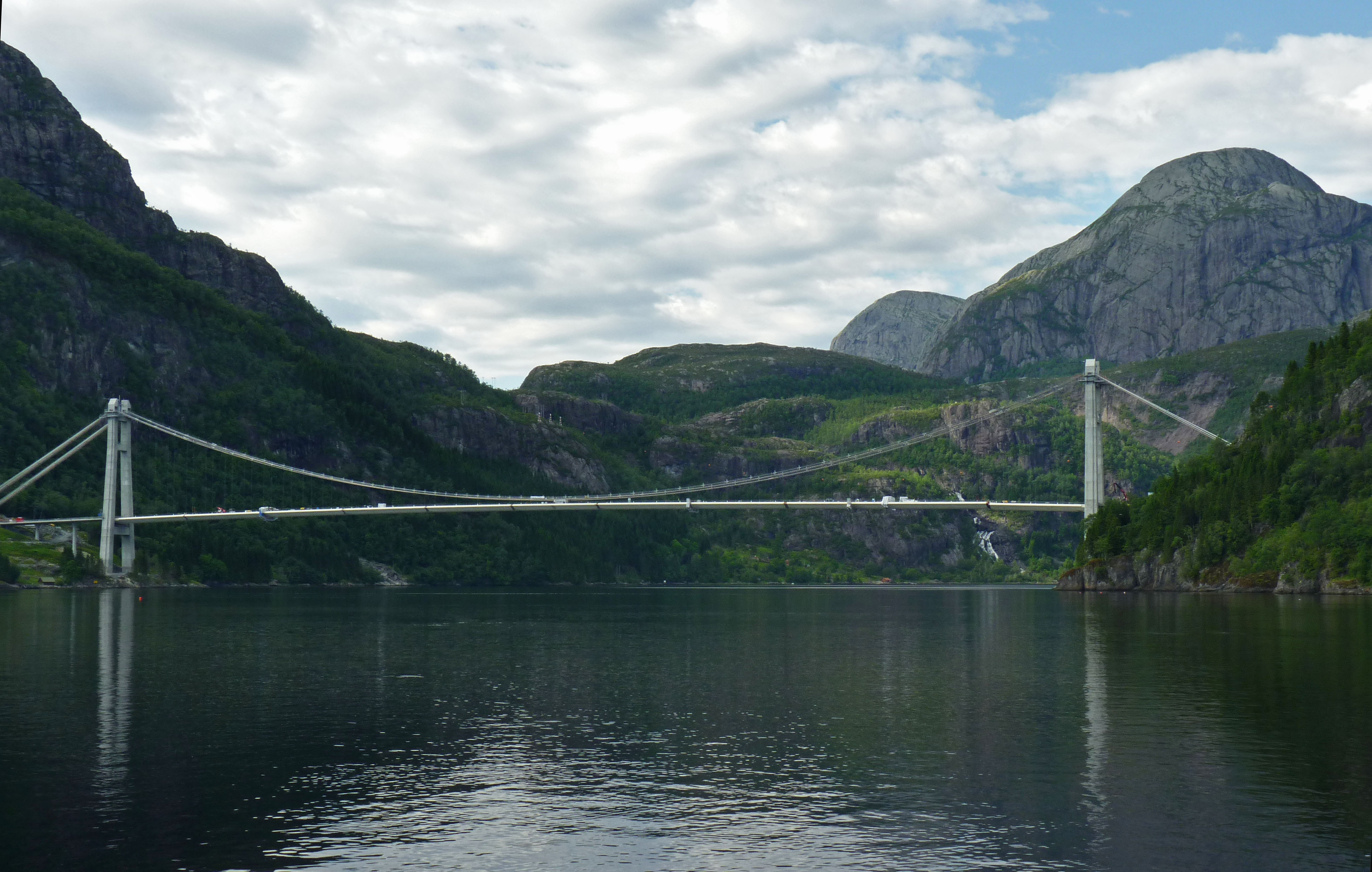 Dalsfjordbrua